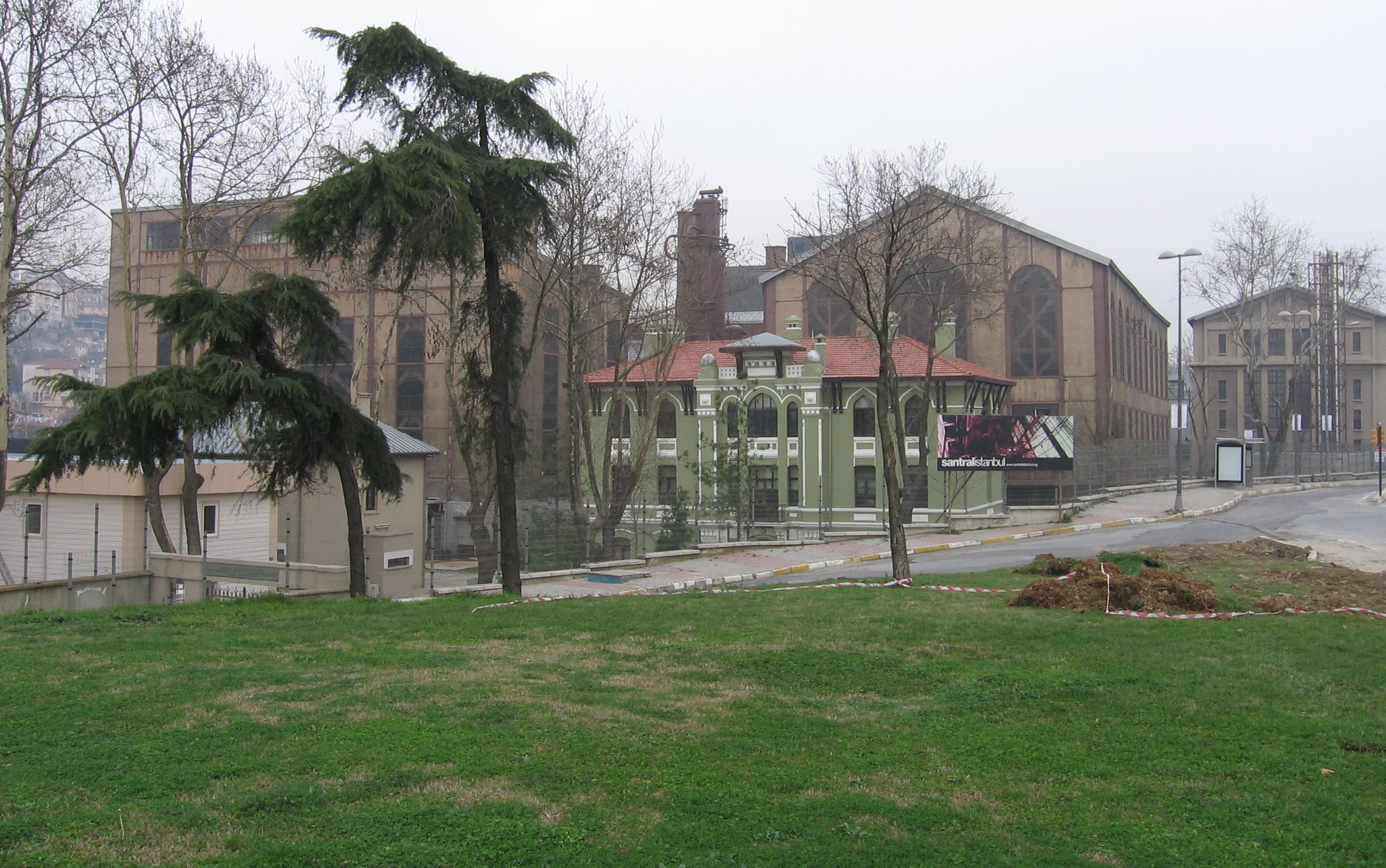 Santralİstanbul energy museum